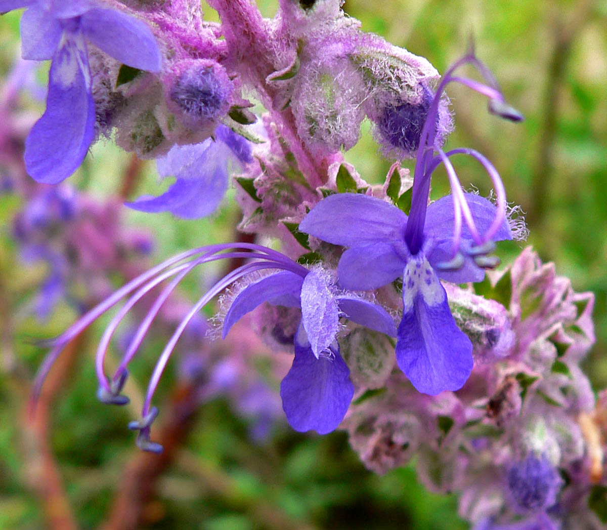 Photo of Trichostema lanatum at the Regional Parks Botanic Garden